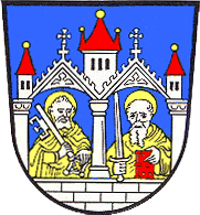 coat of arms of the German city of Volkmarsen.